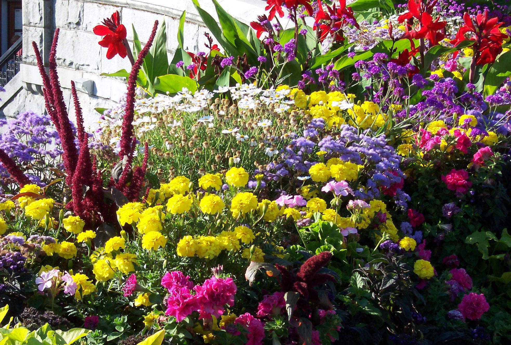 Flowers in the street in Victoria, British Columbia.